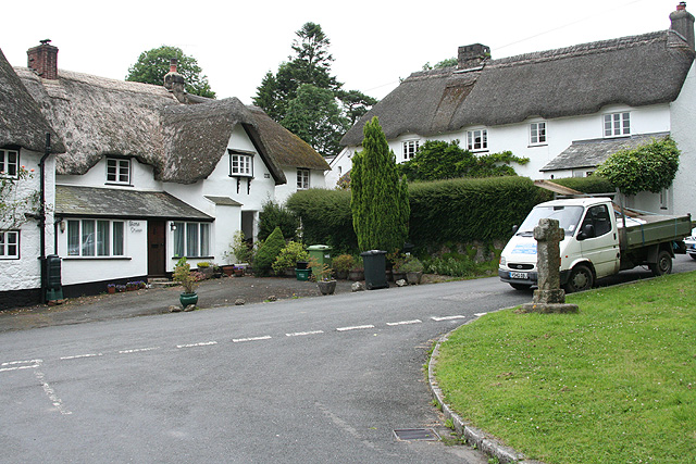 North Bovey: Stone Cross On the edge of the village green: the 18th century house opposite is named ‘Stone Cross’. According to the village guide, the original cross was broken down during the civil war and pieces of the original were found in the house in 1943. Another old cross was recovered from the Bovey Brook in 1829 by the Reverend Pike-Jones and erected on the base of the first